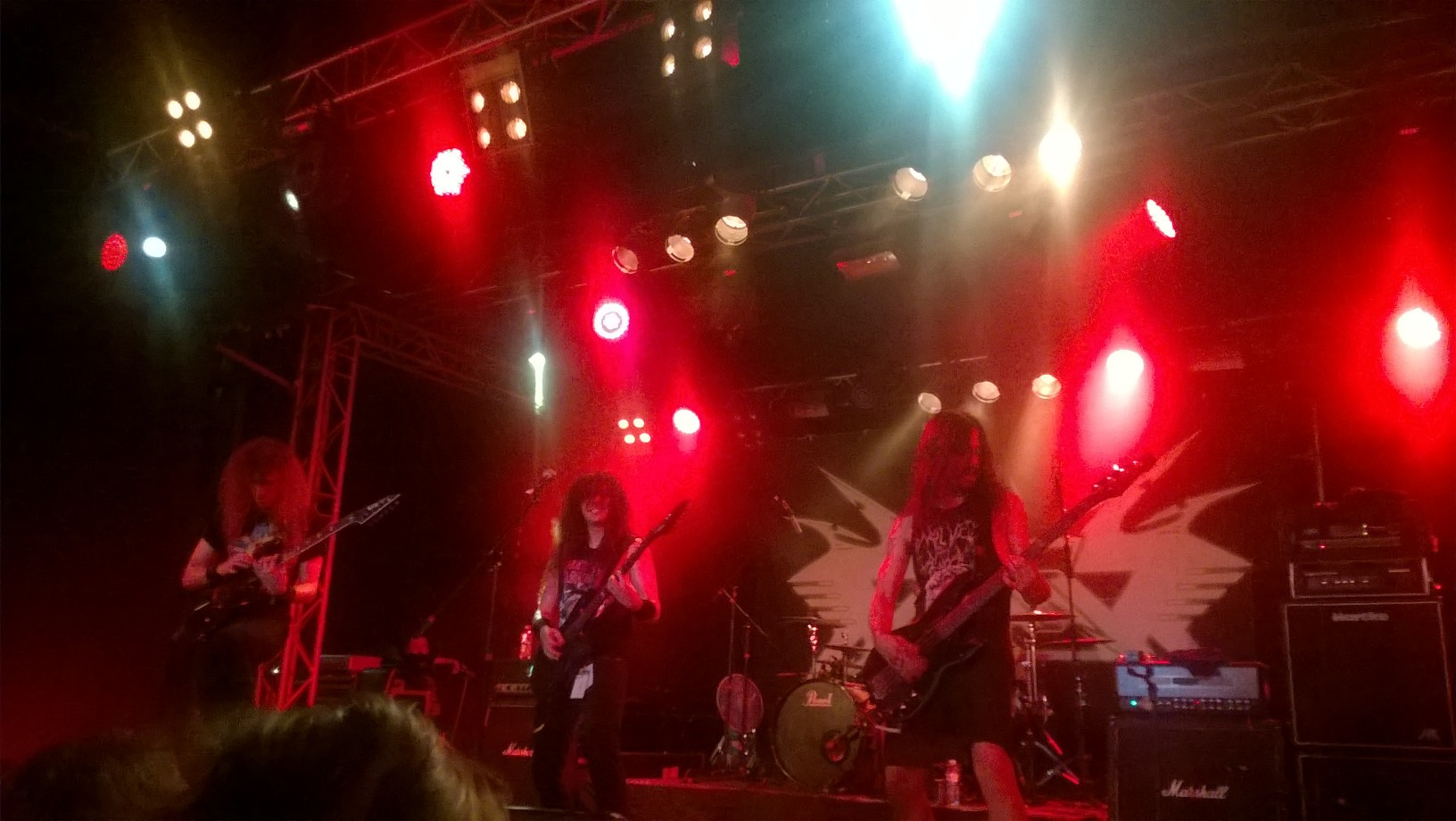 American thrash metal band Vektor (band) live in Moscow (2016).